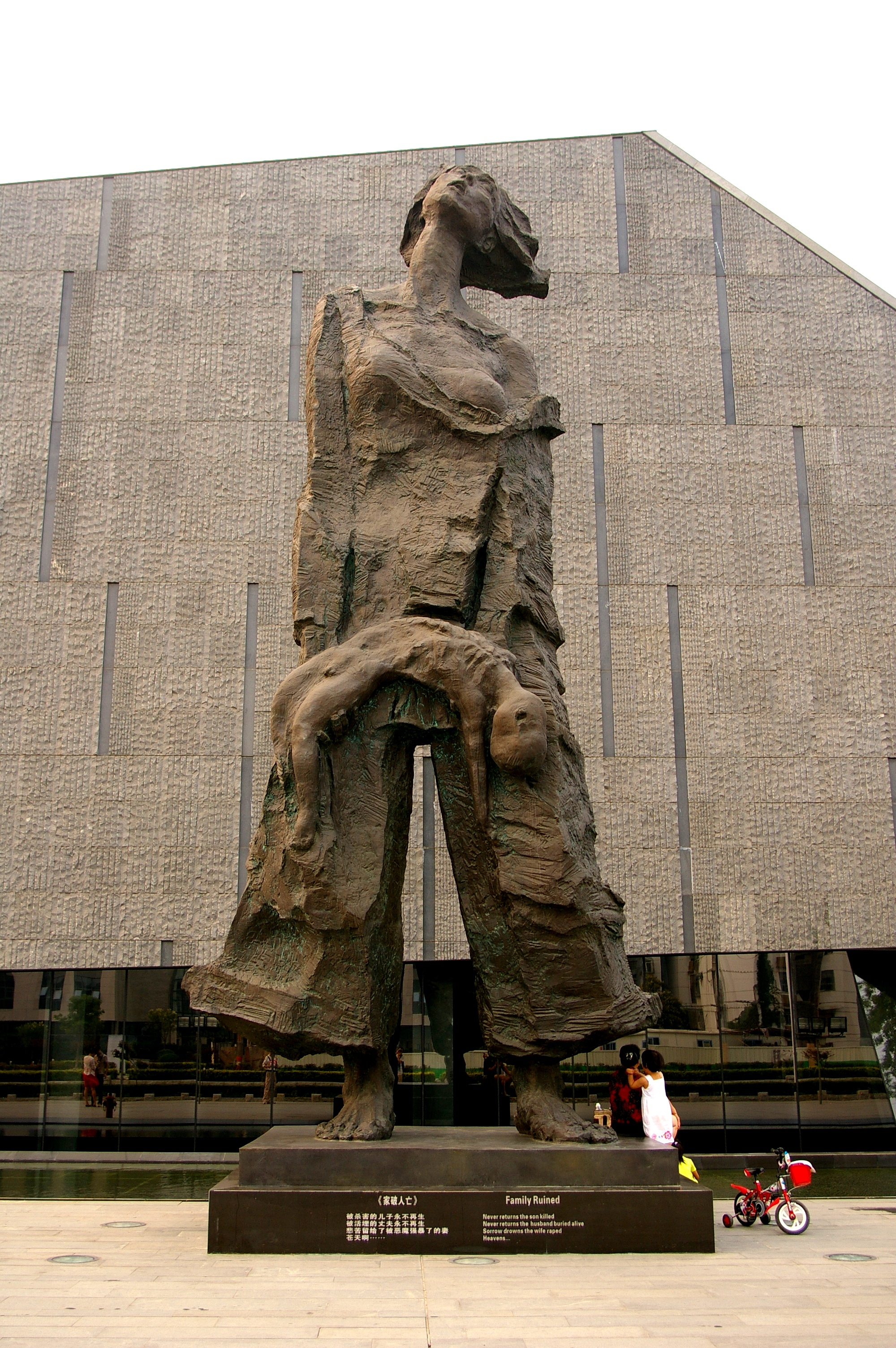 The monument in the front of Memorial Hall of the Victims in Nanjing Massacre in Nanjing